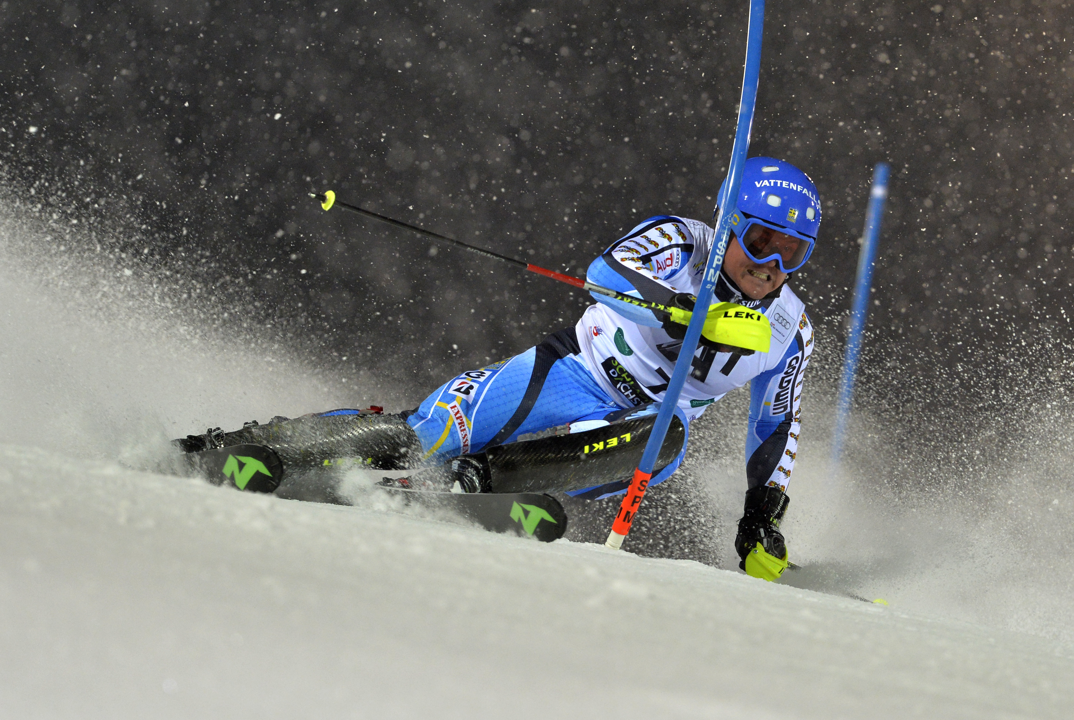 Swedish alpine skier Mattias Hargin at the World Cup slalom in Schladming, Austria.